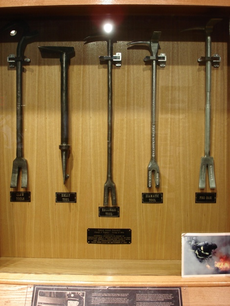 Photo taken downstairs at the New York City Fire Museum. Shows various Halligan tools.